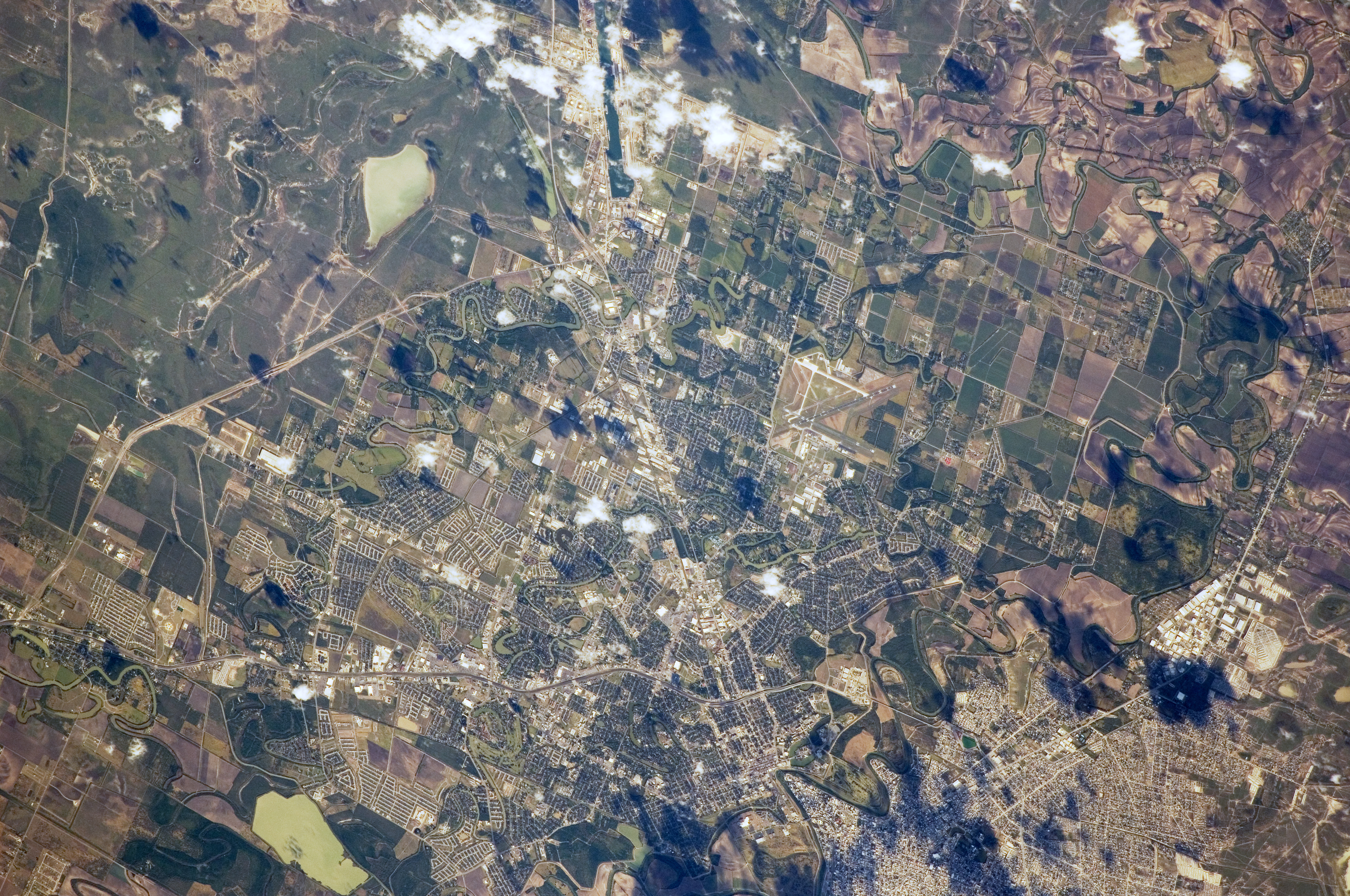 Astronaut Photography of Brownsville, Texas, United States taken from the International Space Station (ISS)